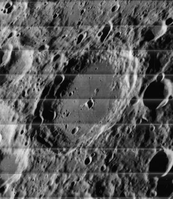 Carnot lunar crater - image LO-V-028-h3